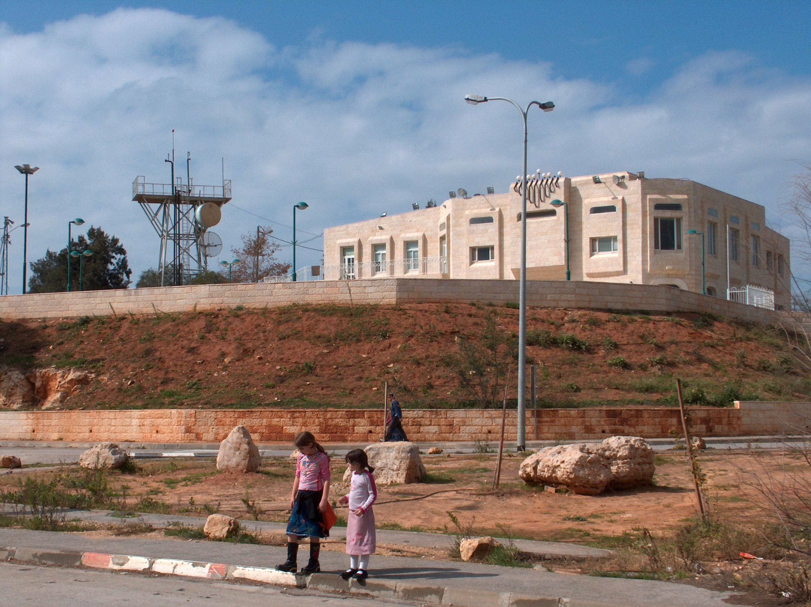 The synagogue of Dolev in Binyamin